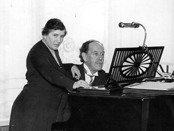 Photograph of the Finnish singer Ida Ekman (1875–1942) and her husband, the pianist Karl Ekman (1869–1947).